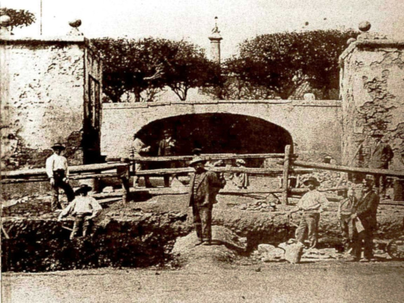 Works for the construction of the Fountain of the Giant. In the background of the photo the Fountain of the Balls is recognized, demolished in 1948